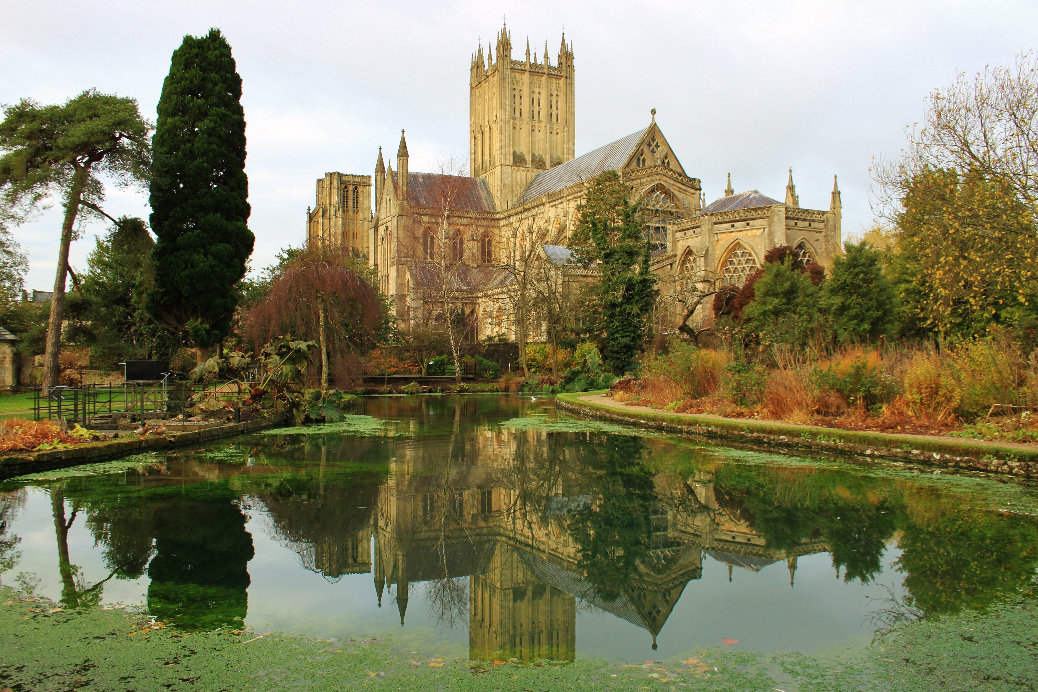 Wells Cathedral shown in the reflecting pool of the Bishop's Palace